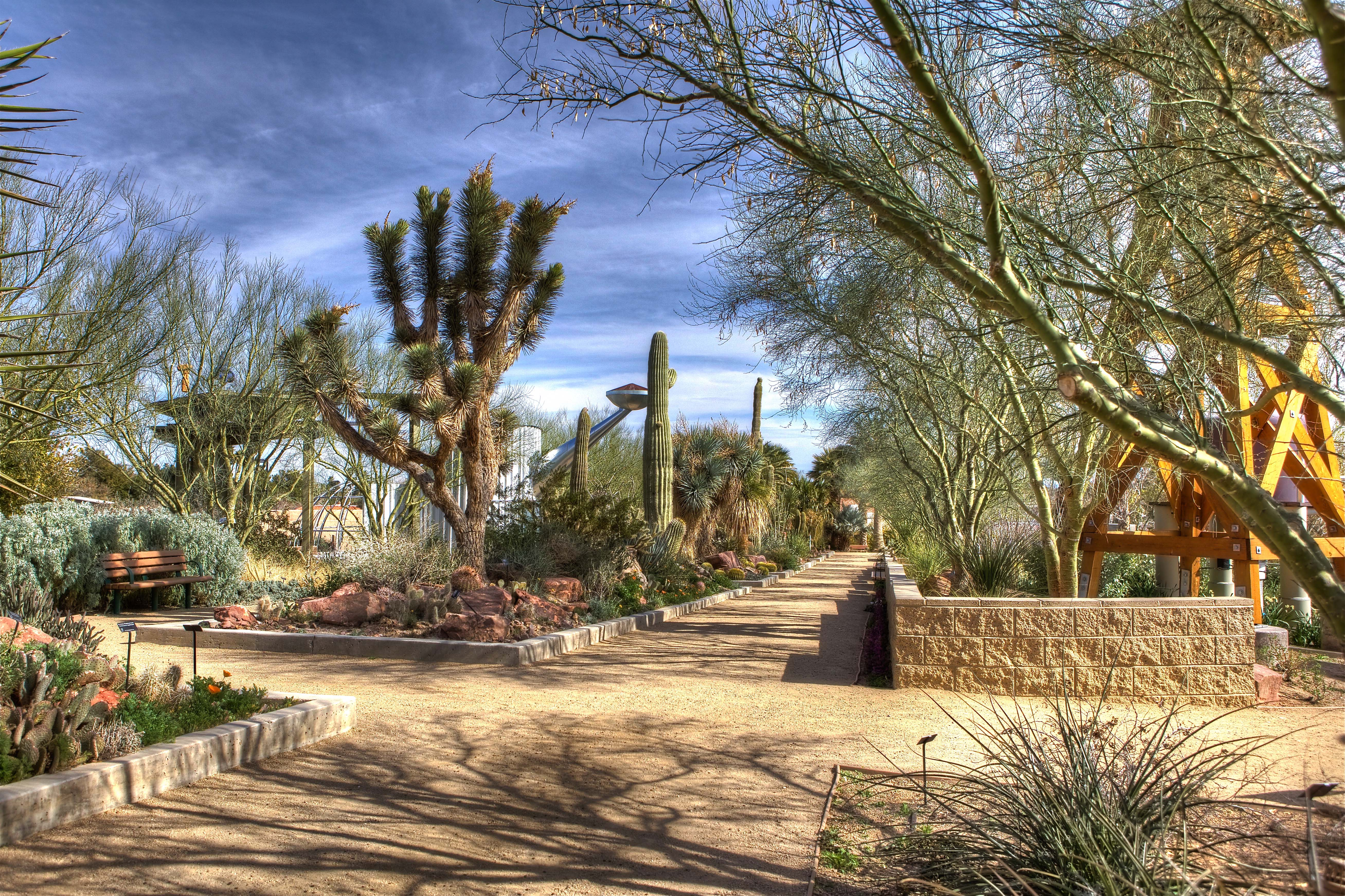 Las Vegas Springs